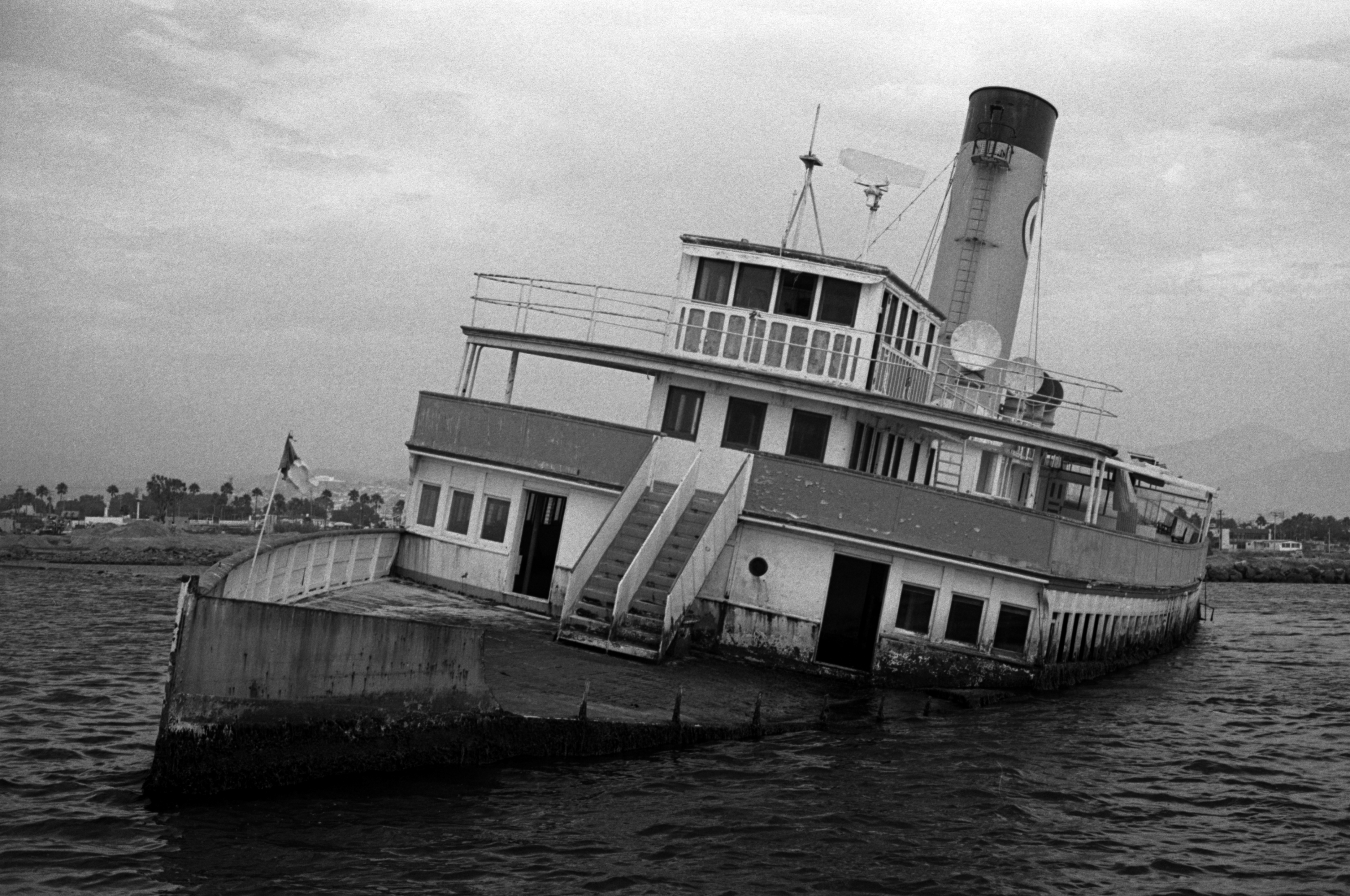 Passenger steamship Catalina partially sunk in Ensenada, Baja California, Mexico